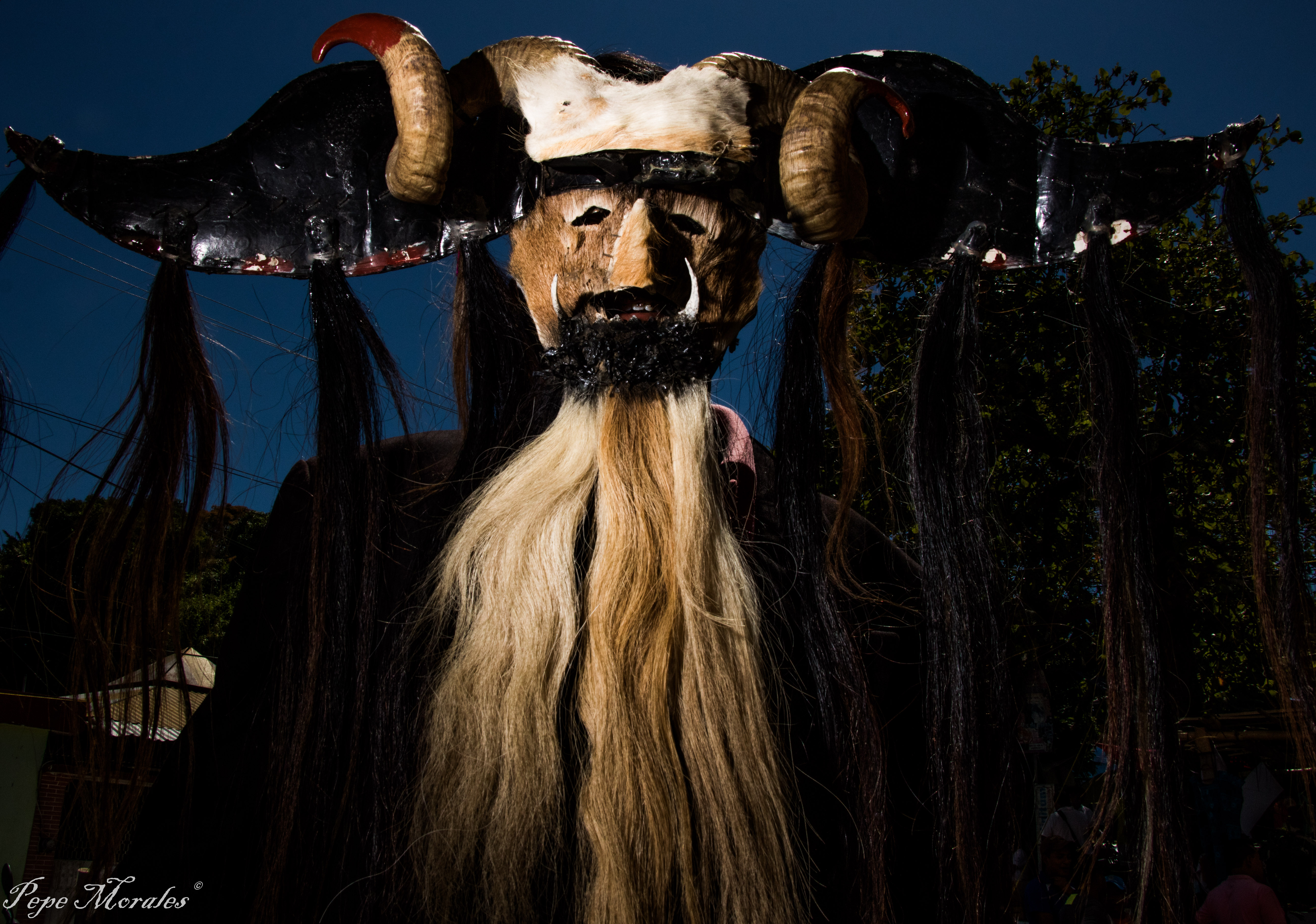 Traditional dance of the state of Guerrero, Mex.